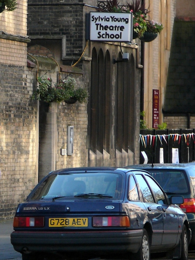 A view of the Sylvia Young Theatre School on Rossmore Road in Marylebone. The image was taken with a Panasonic Lumix DMC-TZ1.